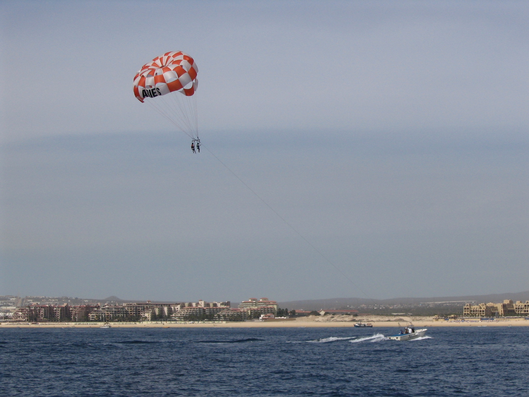 Parasailing in Cabo San Lucas, Baja California Sur, Mexico.